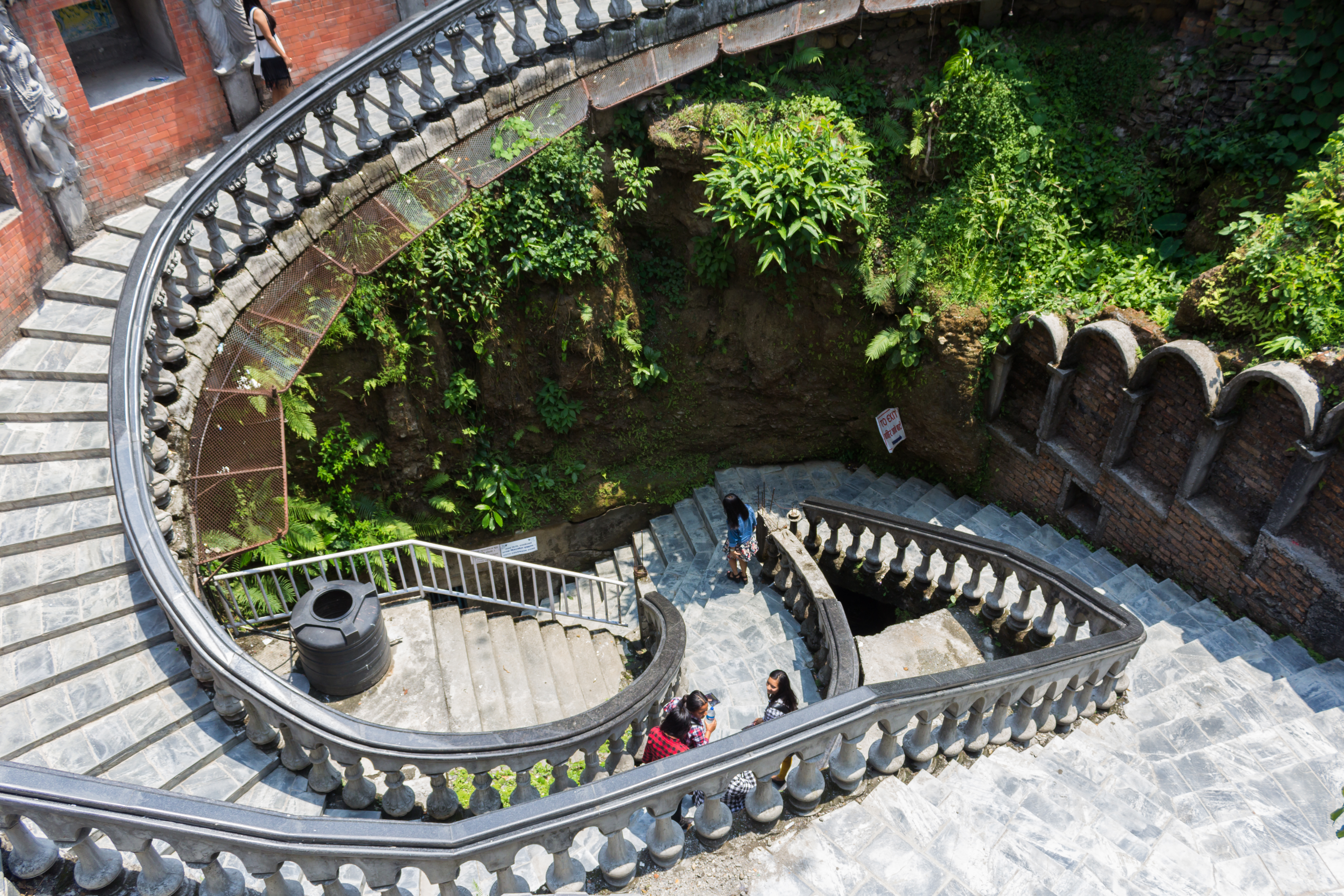 Gupteshwor Mahadev Cave